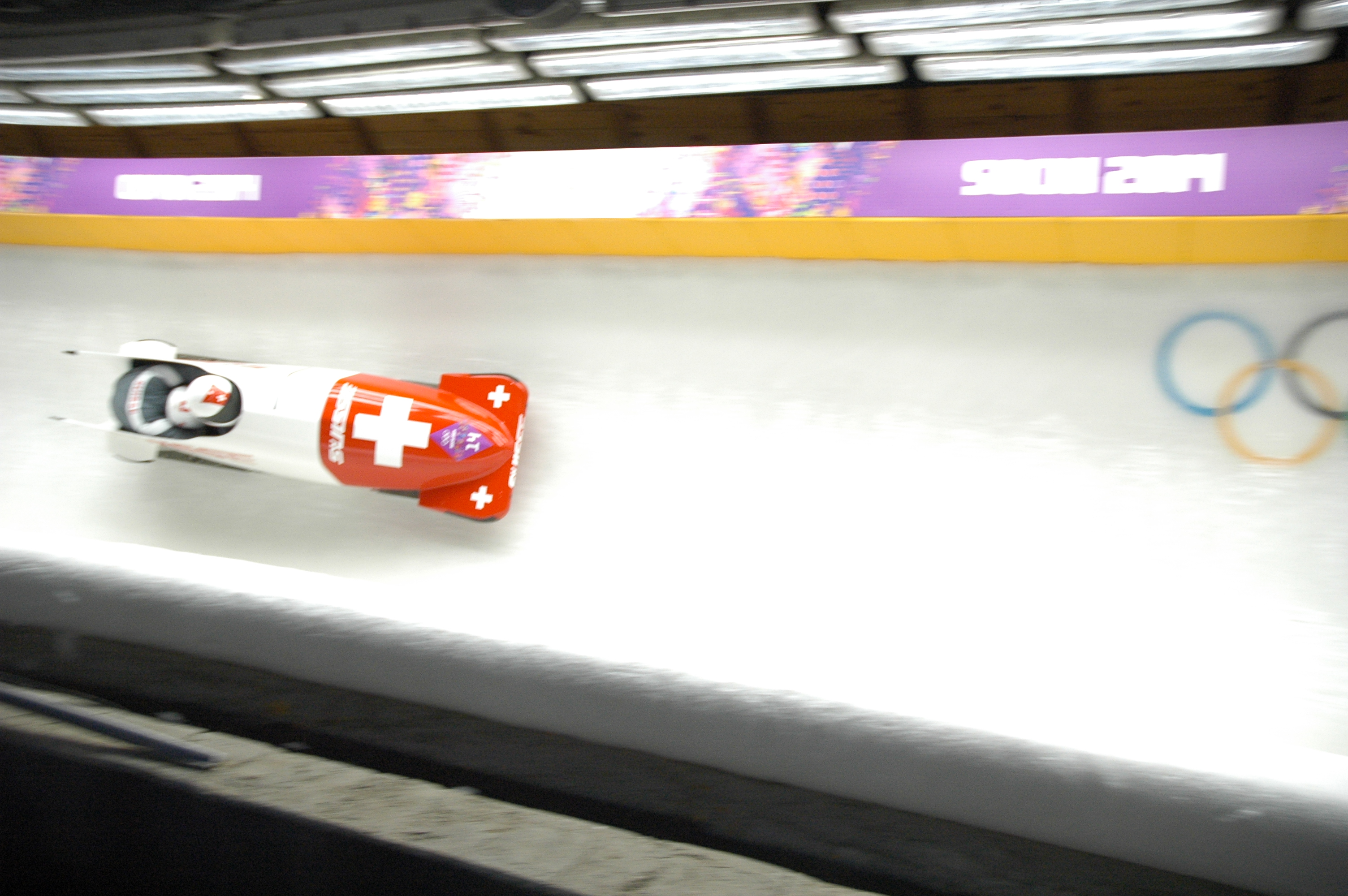 Two-man bobsleigh, 2014 Winter Olympics, Switzerland(14)